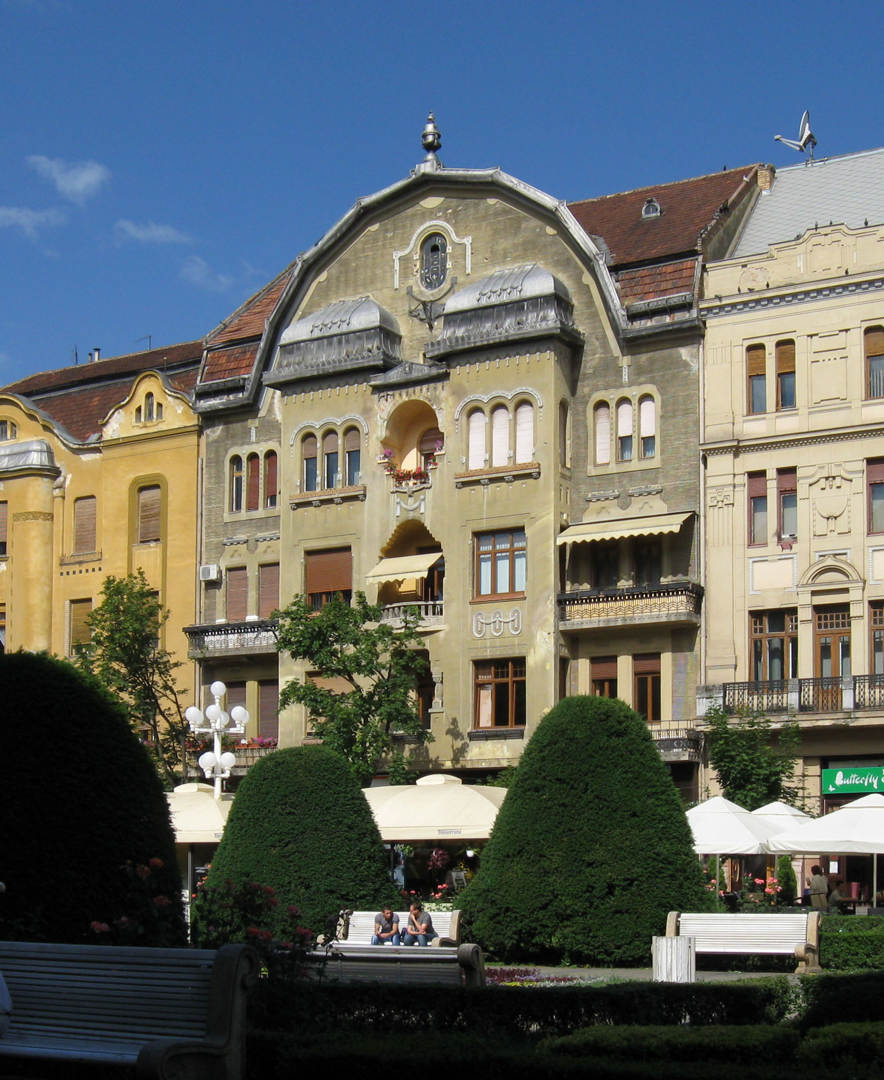 Neuhausz Palace, Timisoara, Romania. Built 1911-1912, architect Székely László (1877-1934)